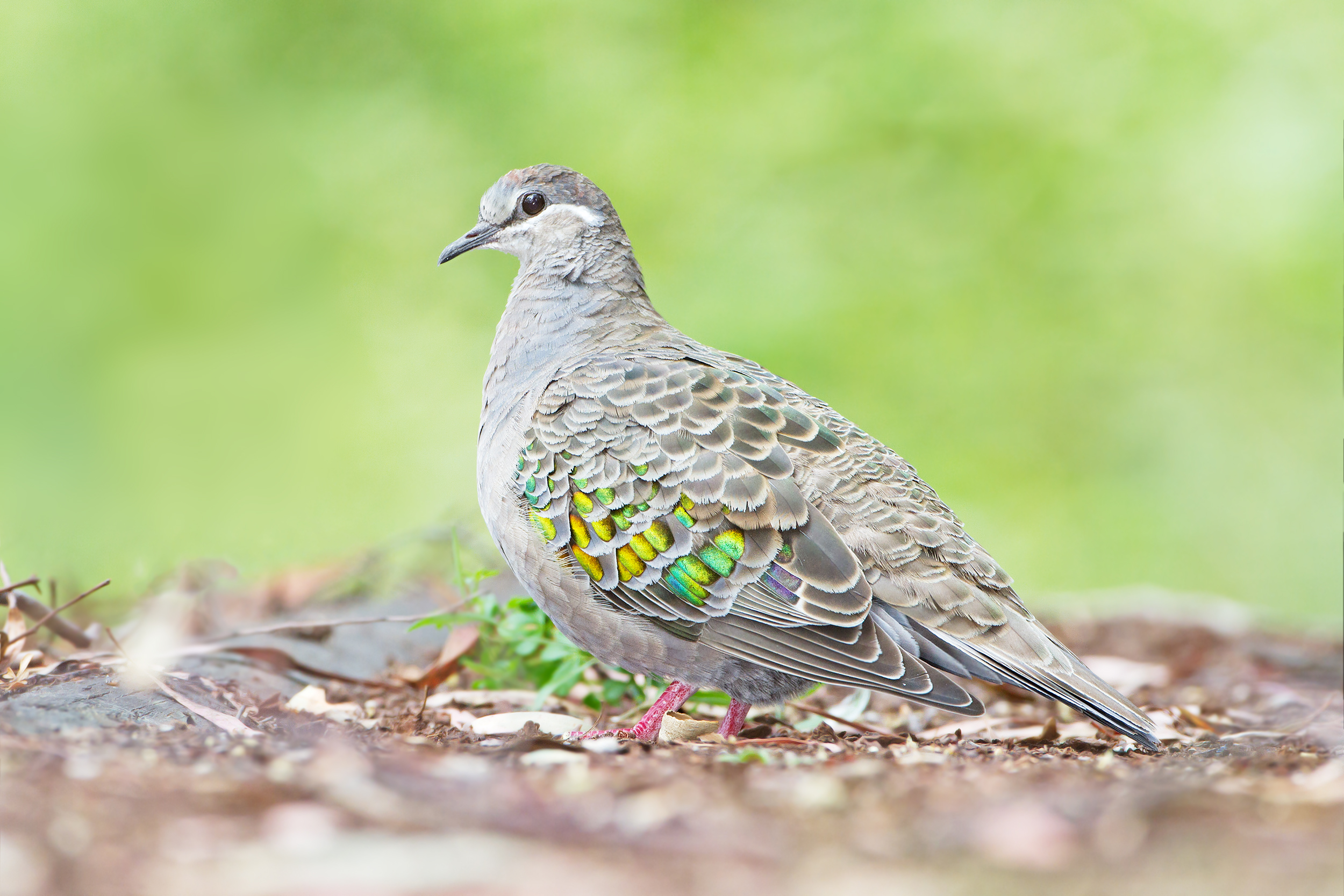 An adult female Common Bronzewing (Phaps chalcoptera) at Australian National Botanic Gardens, Canberra, Australia.